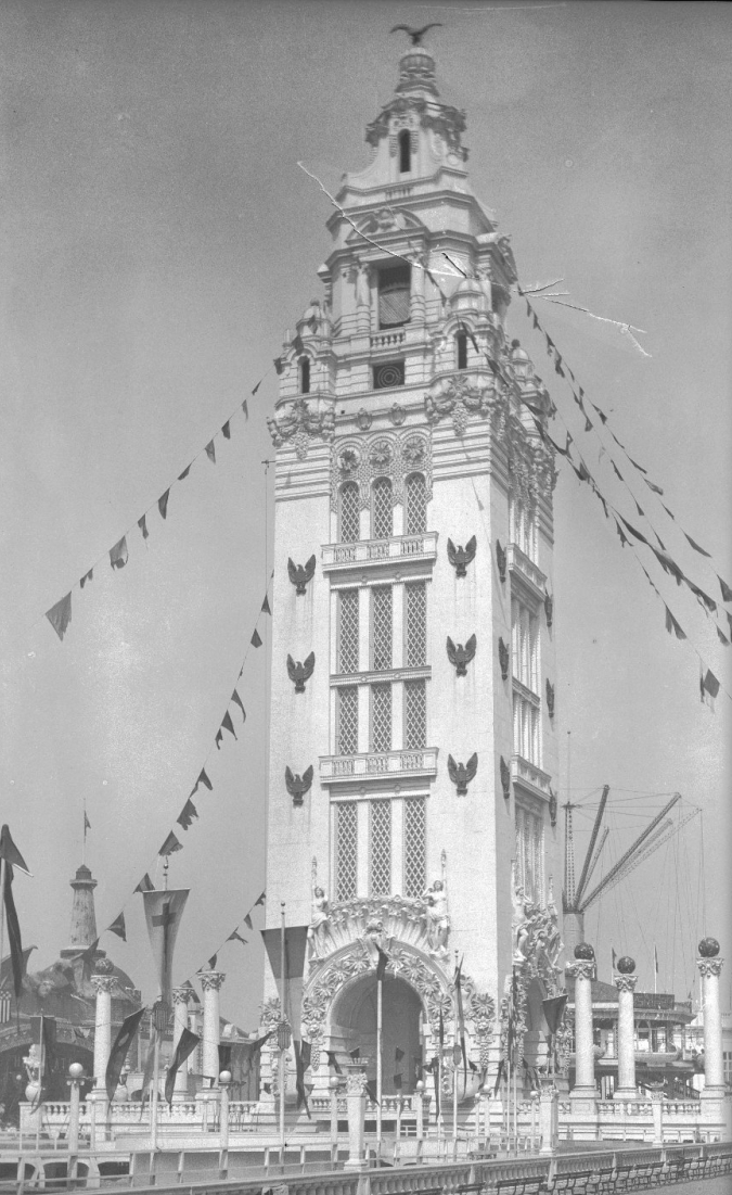 A phtograph of Dreamland amusement park tower and lagoon in Coney Island, Brooklyn, New York City which existed from 1904 to 1911. (Archive description: Eugene Wemlinger. Luna Park, 1906. Nitrate negative. Prints, Drawings and Photographs. Brooklyn Museum/Brooklyn Public Library, Brooklyn Collection, 1996.164.10-14. (1996.164.10-14_IMLS_SL2.jpg) Help us geotag this photograph so we can represent Brooklyn on Historypin. If you can figure out where this image should be placed: Use Suggestify to suggest a location for it. [or] Leave a comment on Flickr and link to the location on Google Maps. [or] Tweet @brooklynmuseum with the Flickr image URL, the location link to Google Maps and use the #mapBK hashtag. More about #mapBK